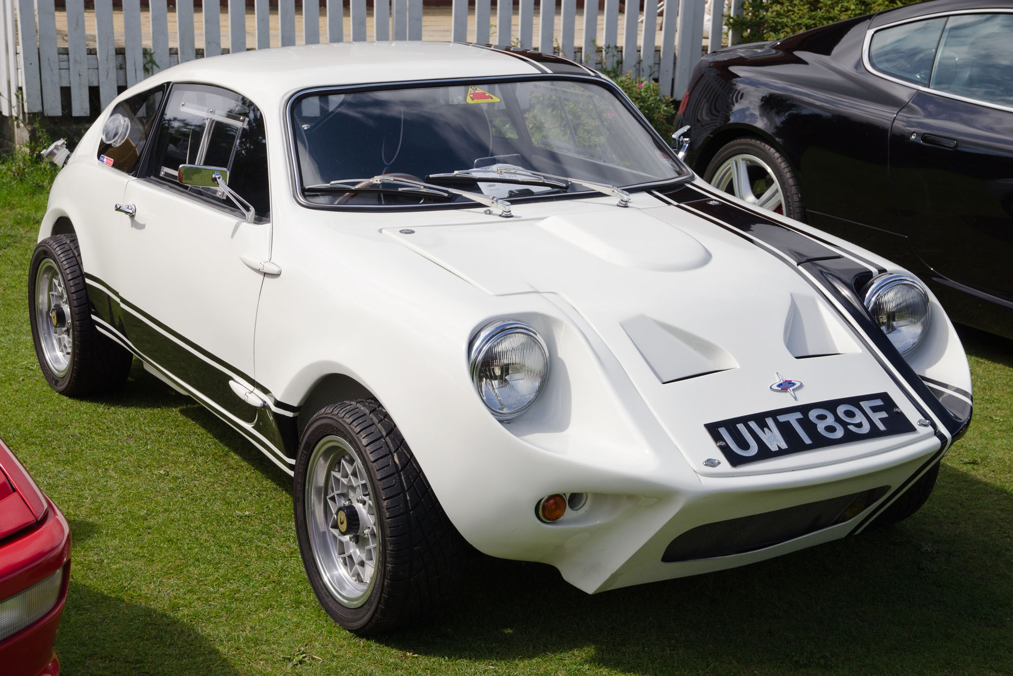 Burley in Wharfedale Classic Vehicle Show 17/08/2014